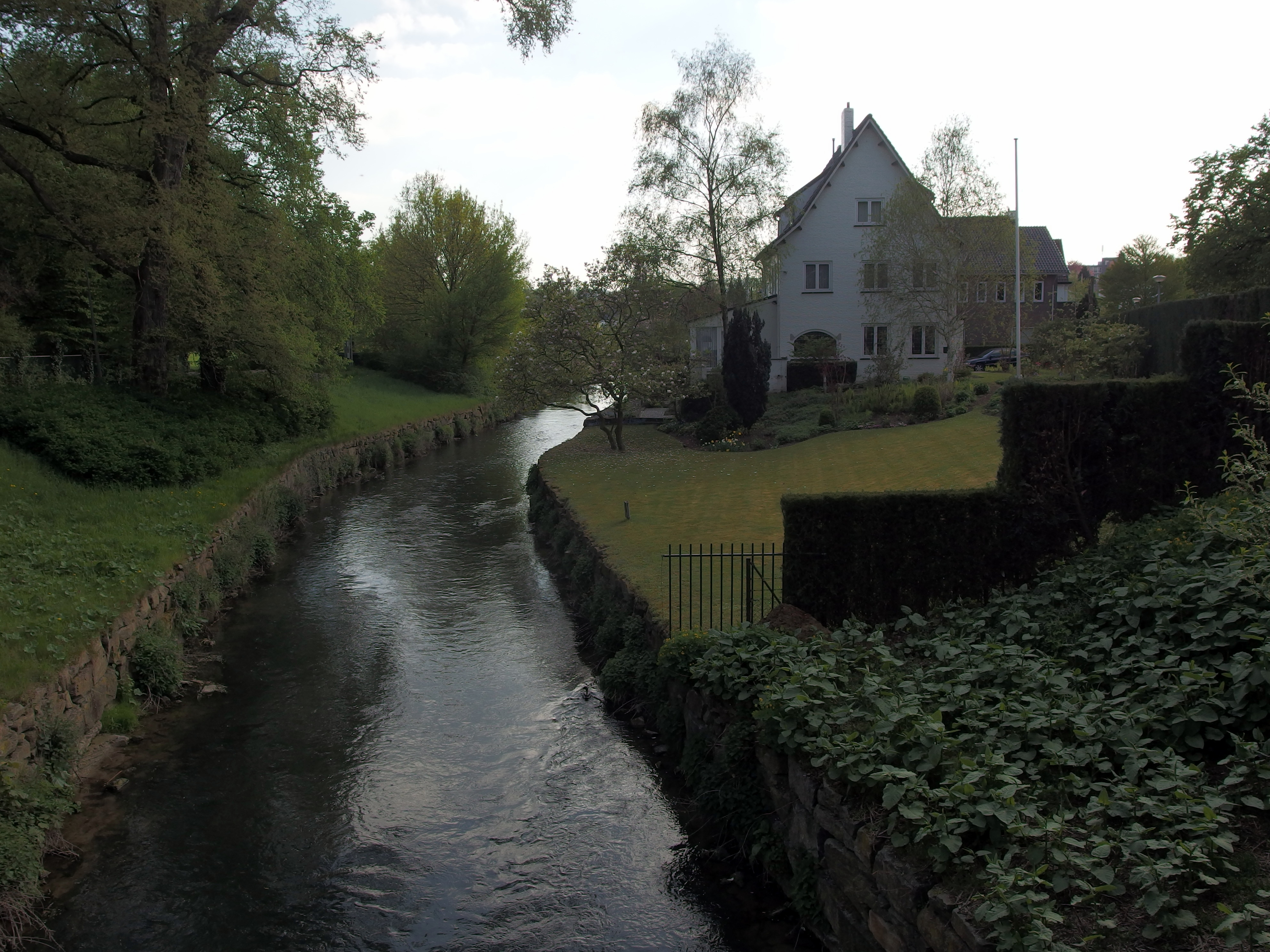 2013-05-04 in Maastricht; Jekerpark.